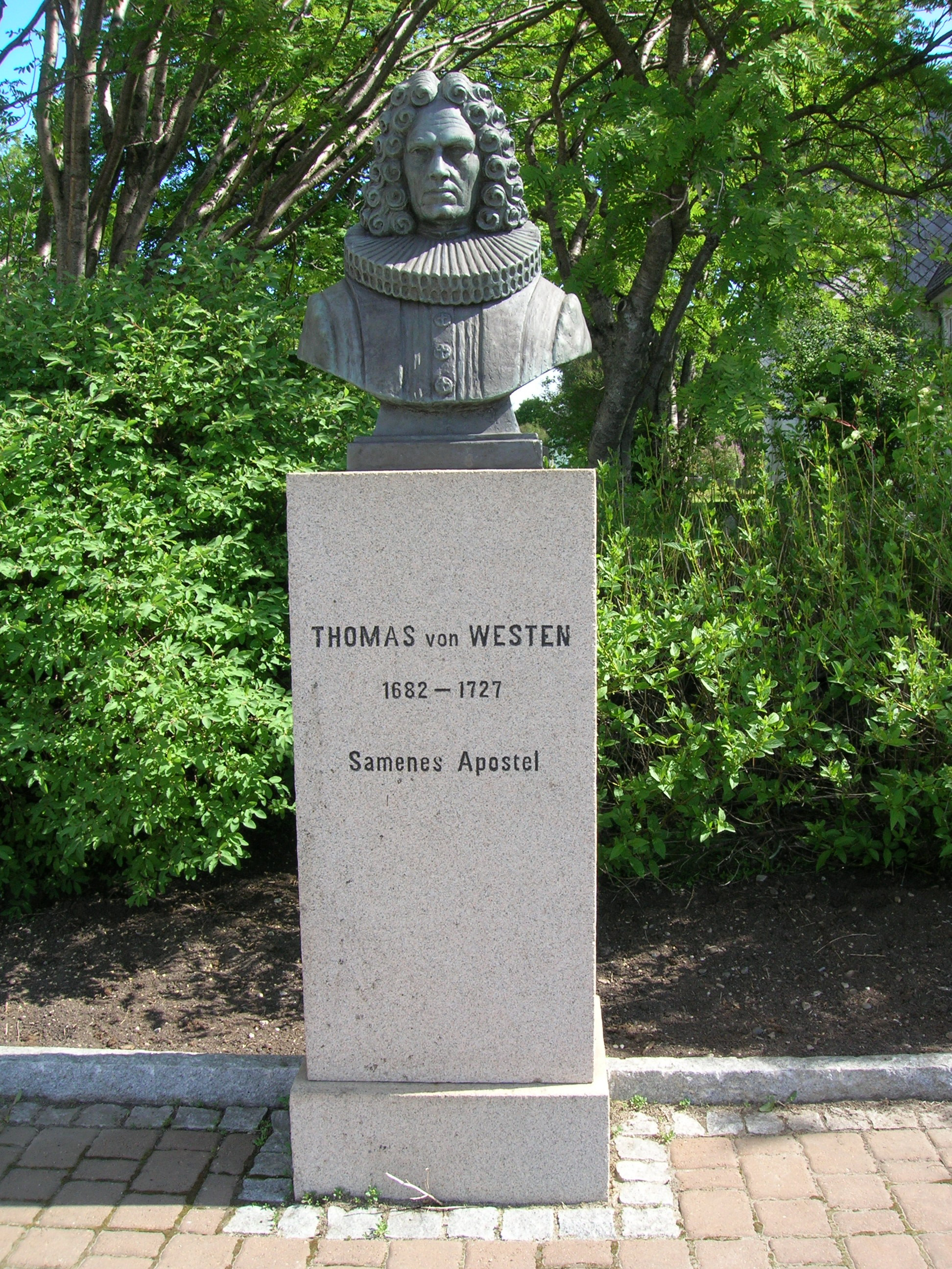 Bust of Thomas von Westen, «the Apostle among the Saami people» in Rana municipality, outside Mo church in Mo i Rana, municipality, Nordland, Norway, Photo June 10, 2007 with a Nikon Coolpix 5600 5,1 Megapixel camera.